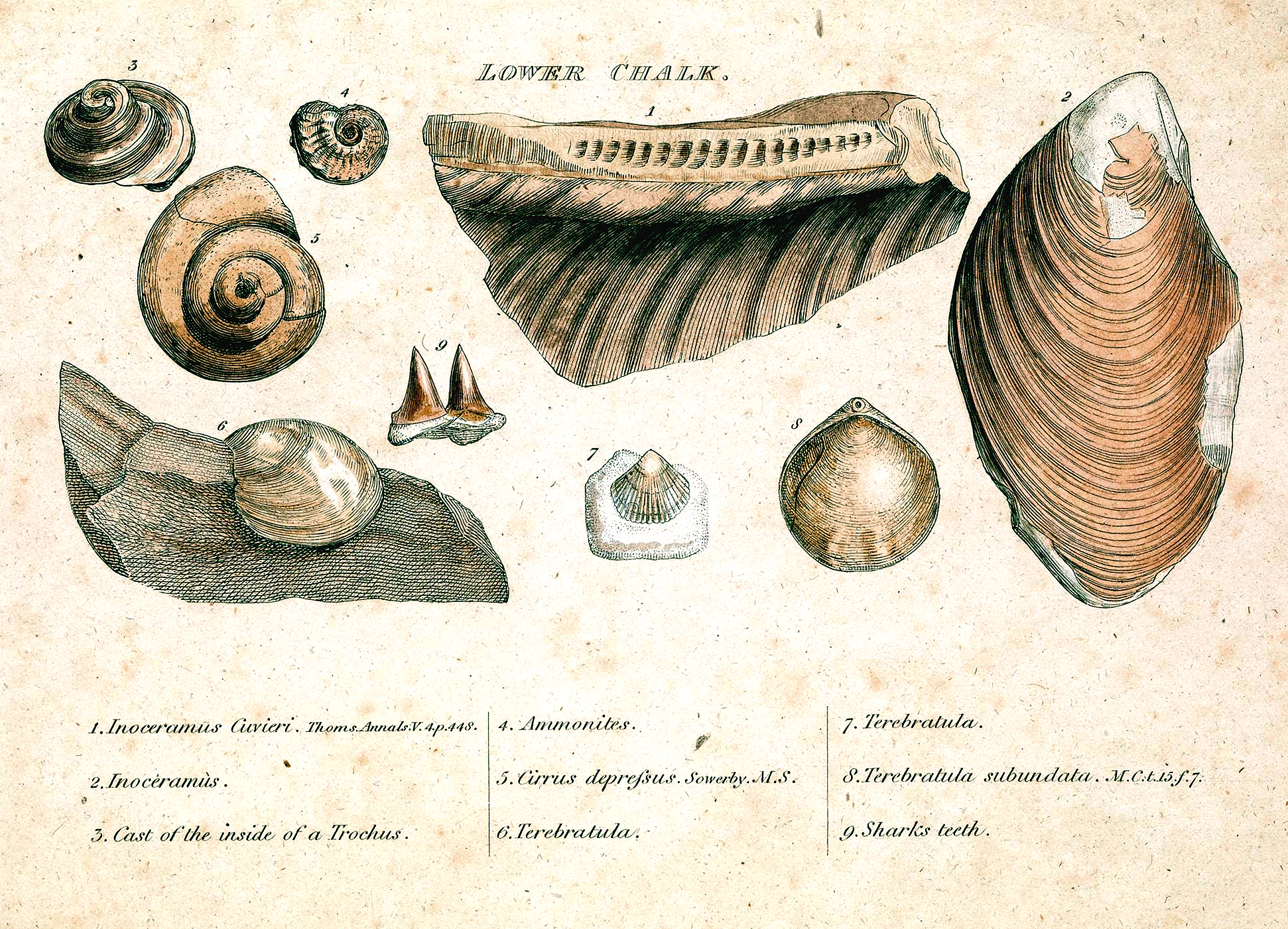 Historical plate showing fossils that characterize the Lower Chalk, i.e. the relatively soft white limestones of the lower Upper Cretaceous of England. This plate comes from the fundamental biostratigraphical work of the pioneer of modern Geology William Smith. Note that the names of the fossil taxa may have changed since, mainly in a way, that the historical genus concepts subsequently changed over to family or even higher-ranked taxa. For example, all bivalves referred to as “Inoceramus” in the plate today are considered members of the family Inoceramidae but may be assigned to different genera than Inoceramus. The inoceramid bivalve in figure 2 quite surely represents an elongated form of the genus Mytiloides (erected by Brongniart in 1822). Figure 1 shows a detail or a fragment of the hinge area of a large inoceramid shell (here referred to as „Inoceramus Cuvieri “ with reference to the first formal but rather brief description of an inoceramid species by George Sowerby I in Thomson’s Annals of Philosophy, Vol. 4.[1] The genus “Ammonites” (figure 4) is not even used anymore in ammonite taxonomy.[2]